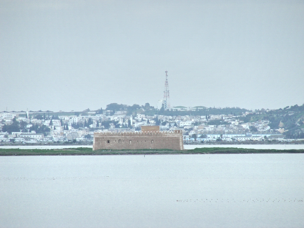 Chikli Island, Lake of Tunis, Tunisia.